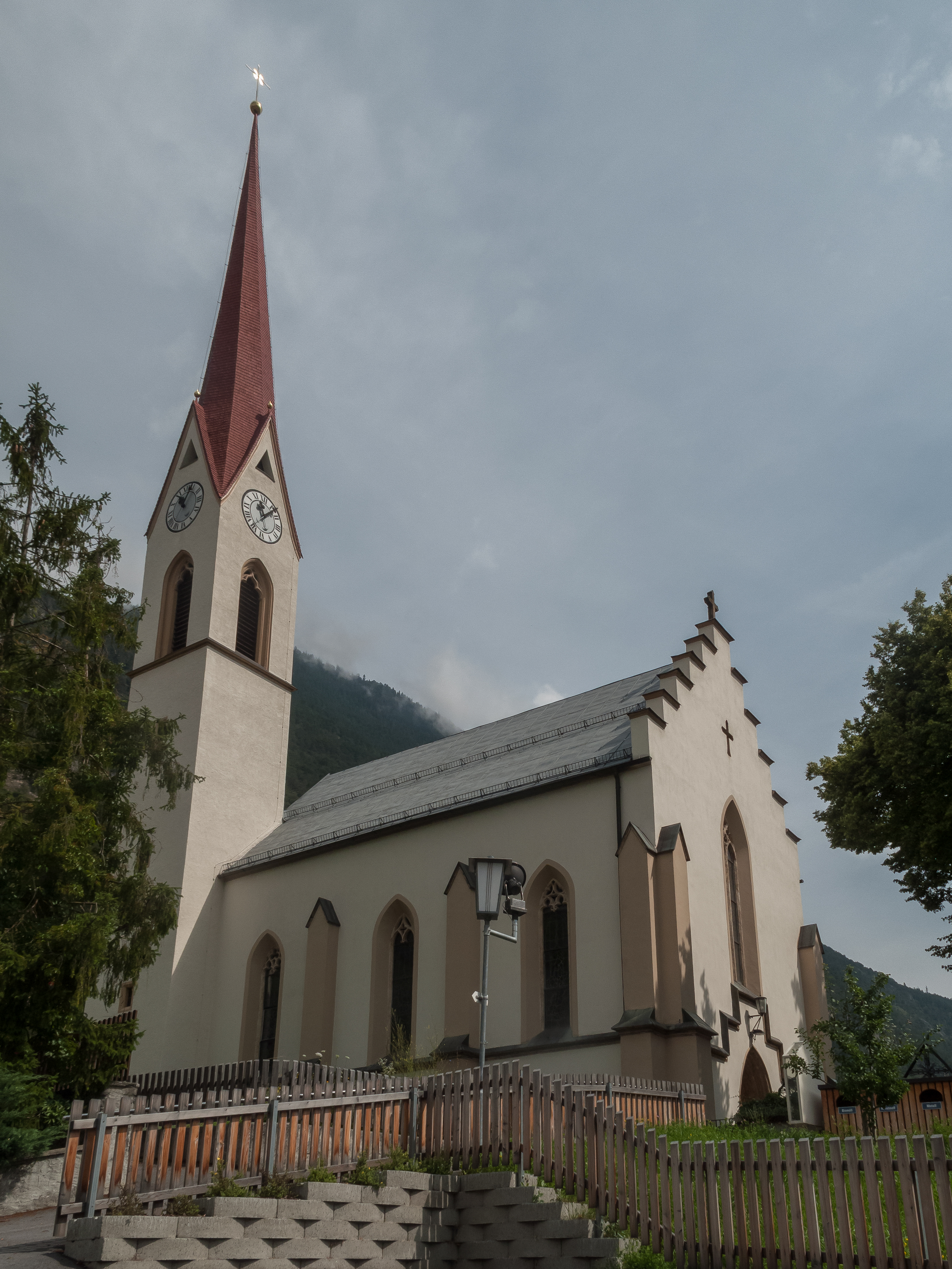 Mils bei Imst, church: katholische Pfarrkirche heilige Sebastian This media shows the remarkable cultural object in the Austrian state of Tyrol listed by the Tyrolean Art Cadastre with the ID 21204. (on tirisMaps, pdf, more images on Commons, Wikidata)